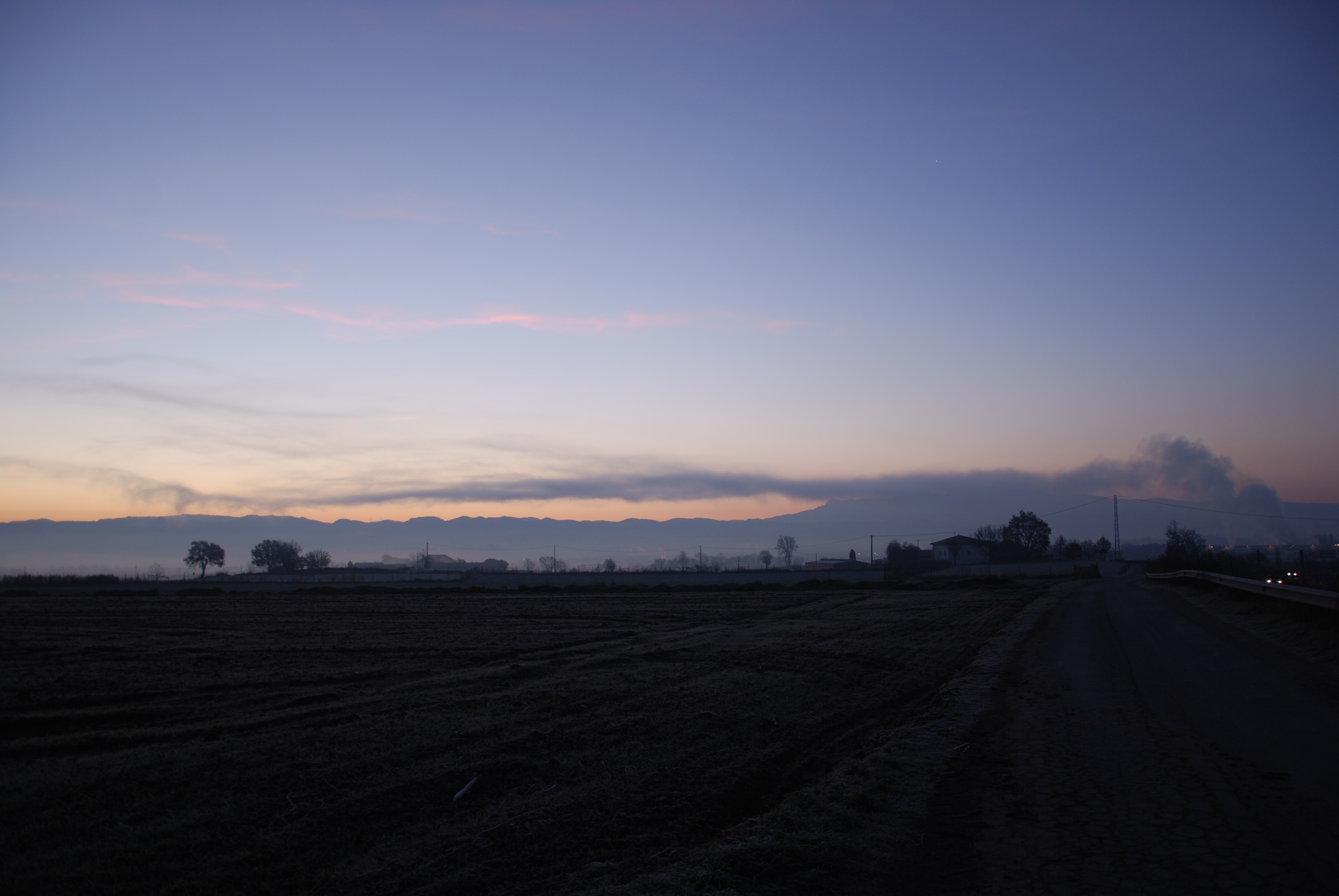 Anthropostratus near Vic (Barcelona, February, 2011).